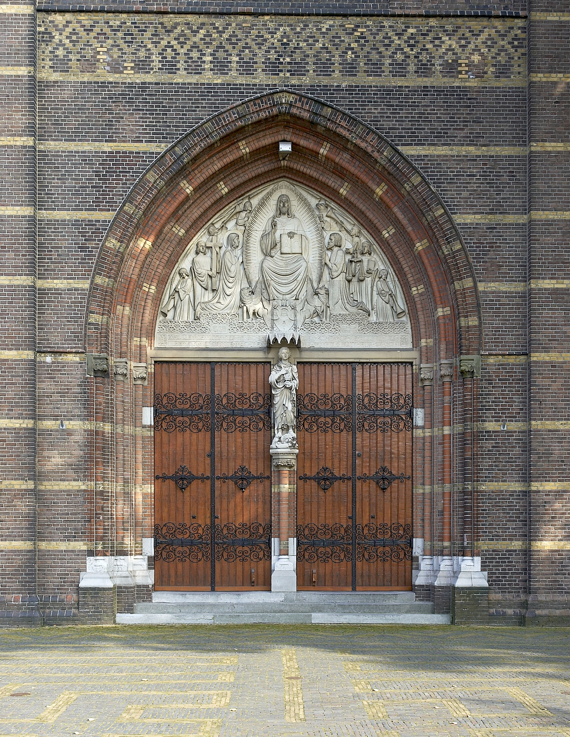 Large door of the Sint-Vitus church in Hilversum, Netherlands